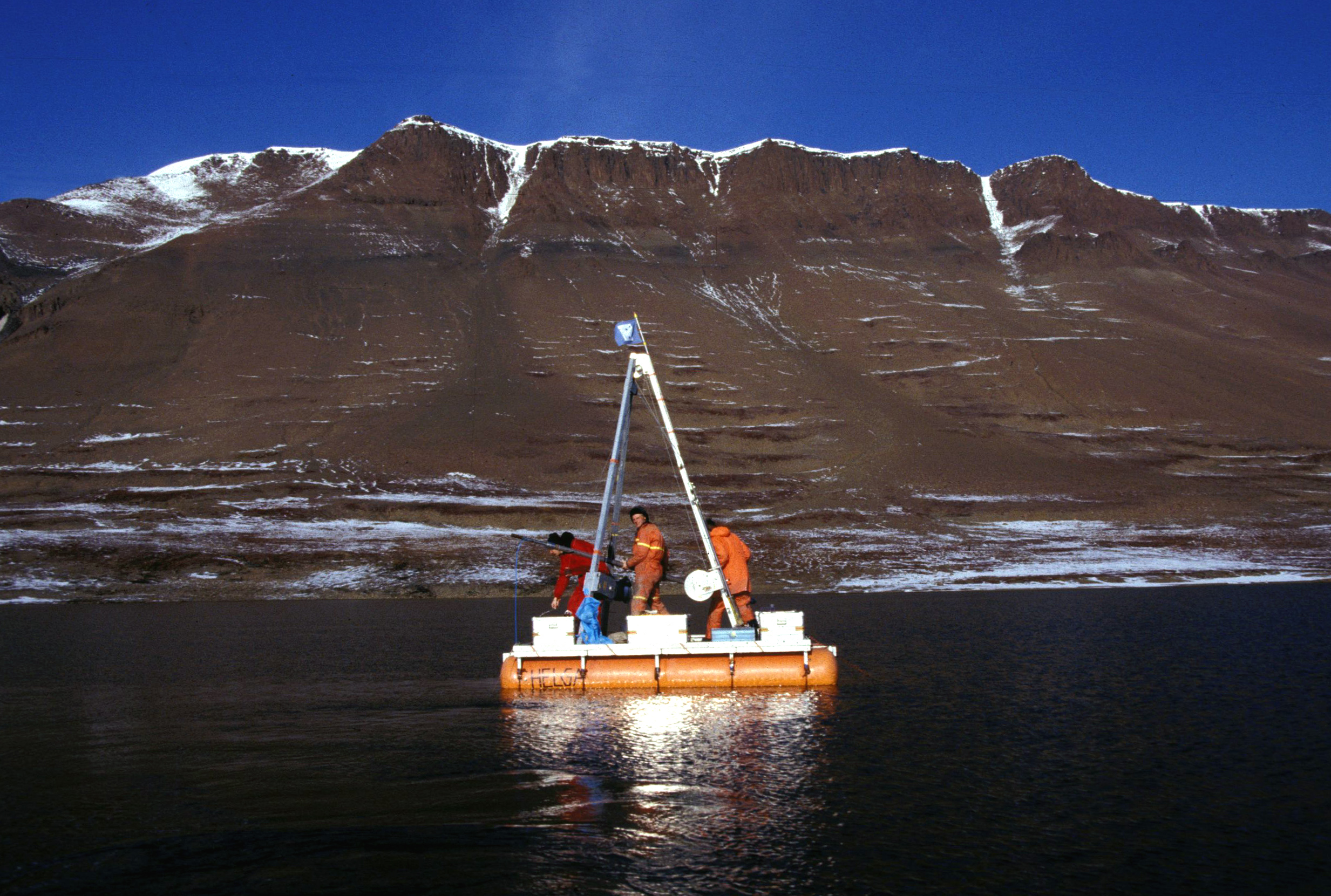 Sediment coring from a raft on a lake in East Greenland; performed to recover Quaternary sediments for the reconstruction of paleoclimate and the glaciation history of Greenland. This project was carried out during cruise ARK-X/2 of RV POLARSTERN.